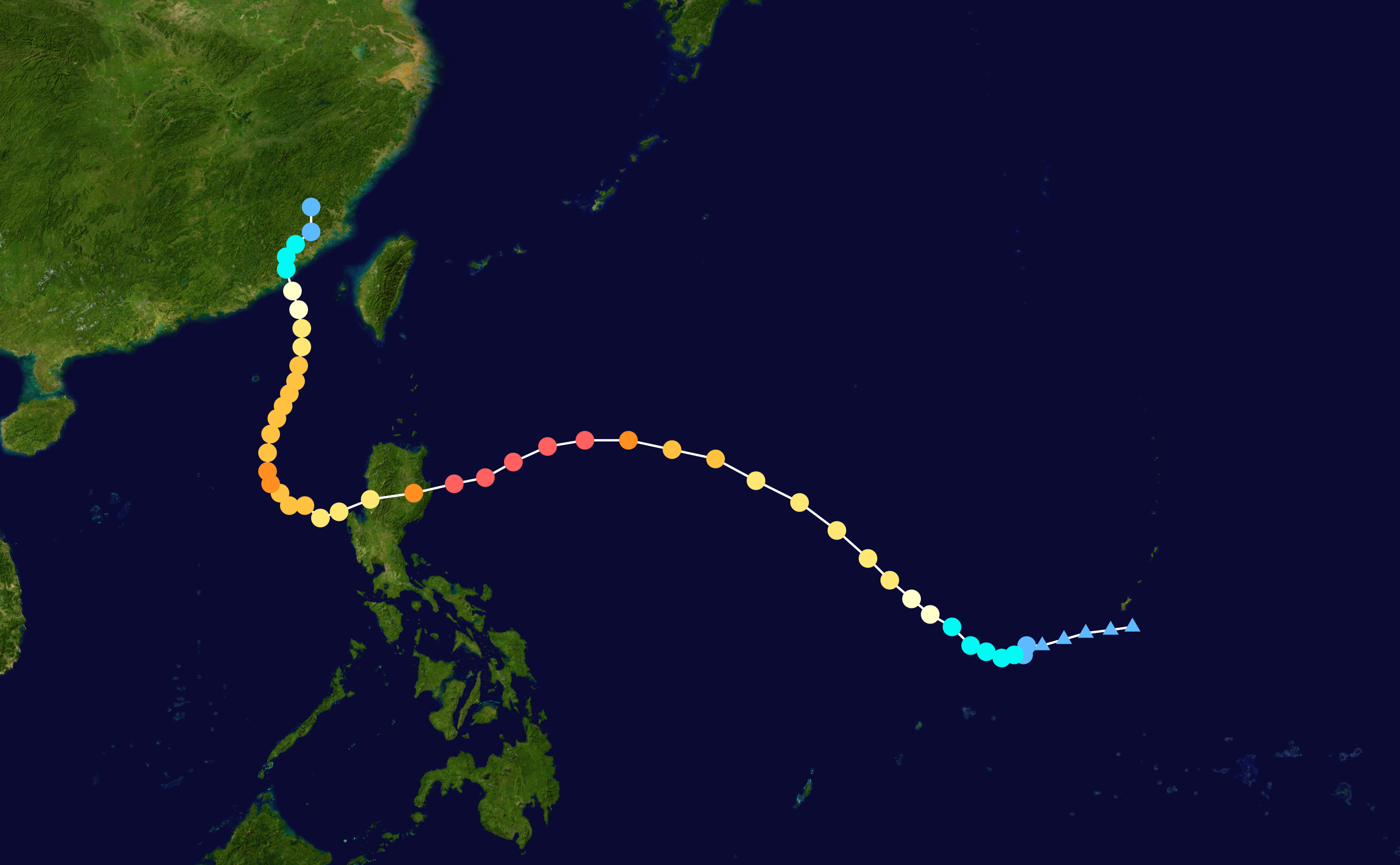 Track map of Typhoon Megi of the 2010 Pacific typhoon season. The points show the location of the storm at 6-hour intervals. The colour represents the storm's maximum sustained wind speeds as classified in the Saffir–Simpson scale (see below), and the shape of the data points represent the nature of the storm, according to the legend below. Saffir–Simpson scale Tropical depression≤38 mph≤62 km/h Category 3111–129 mph178–208 km/h Tropical storm39–73 mph63–118 km/h Category 4130–156 mph209–251 km/h Category 174–95 mph119–153 km/h Category 5≥157 mph≥252 km/h Category 296–110 mph154–177 km/h Unknown Storm type Tropical cyclone Subtropical cyclone Extratropical cyclone / Remnant low / Tropical disturbance / Monsoon depression